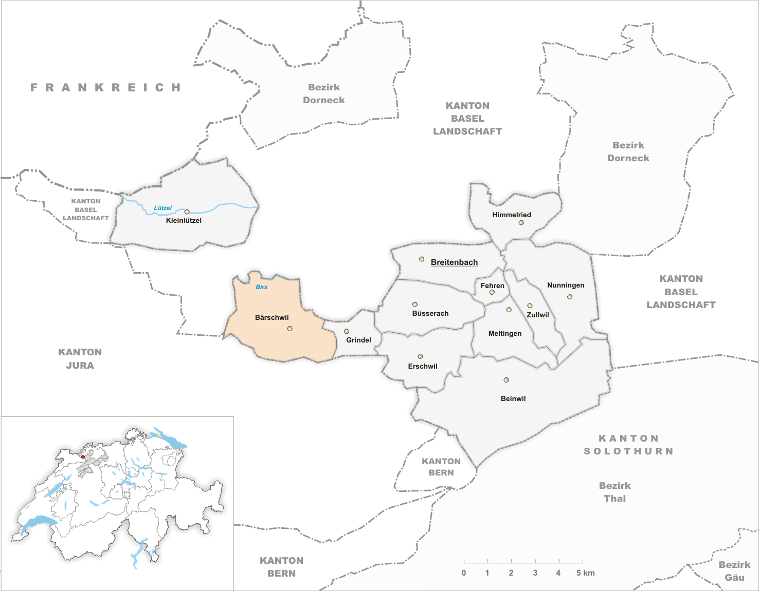 Municipality Bärschwil